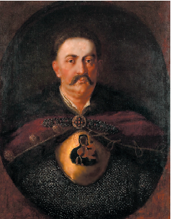 Jan III Sobieski with gorget with Black Madonna of Częstochowa